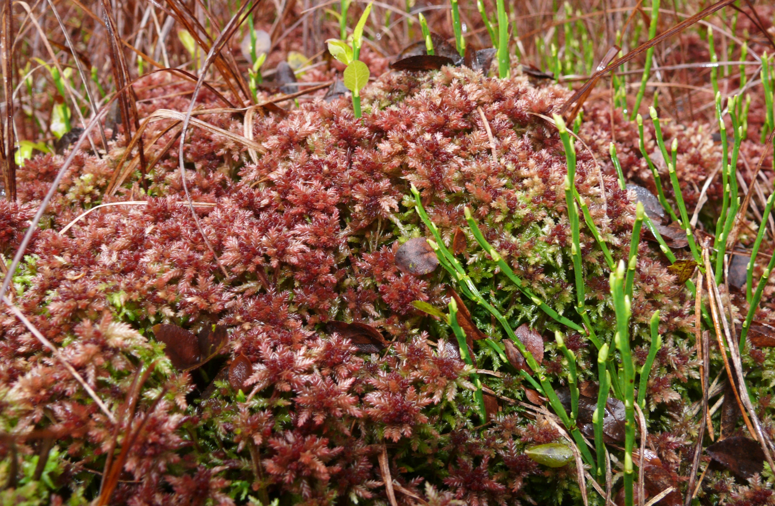 Sphagnum medium, Virngrund, Germany (note: S. magellanicum is endemic to South America)